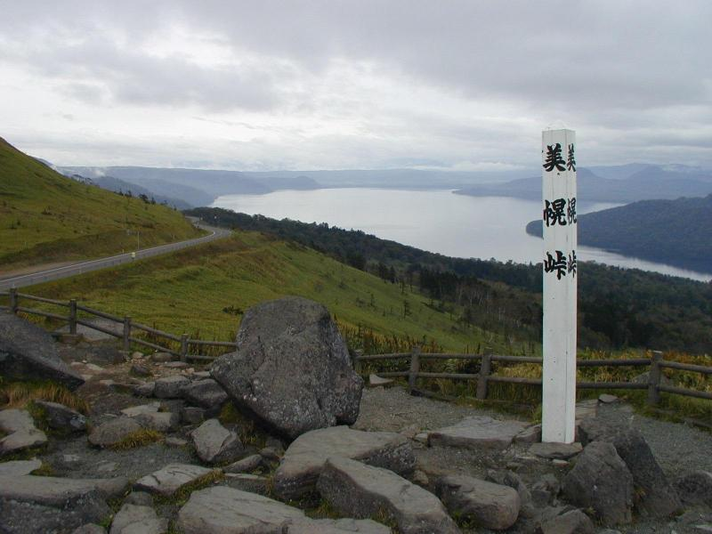 Bihoro Pass, Hokkaido, Japan -- by User:Jpatokal